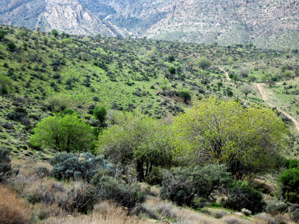 The nature of FASA -29-02-1391